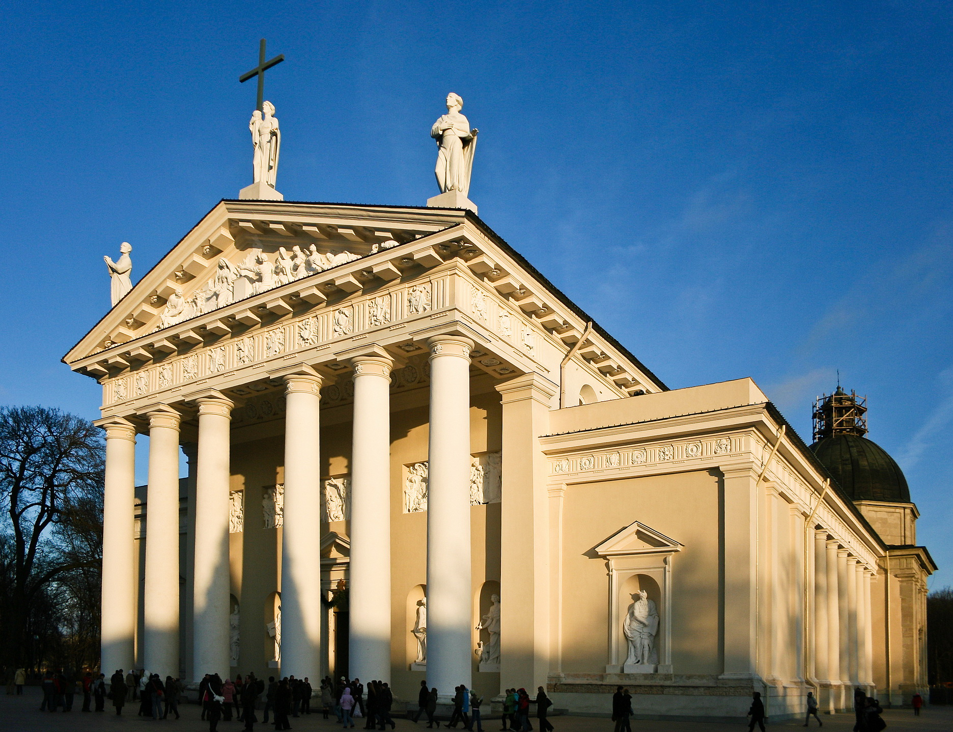 Facade of Vilnius Cathedral in December This is a retouched picture, which means that it has been digitally altered from its original version. Modifications: perspective correction adjusted.